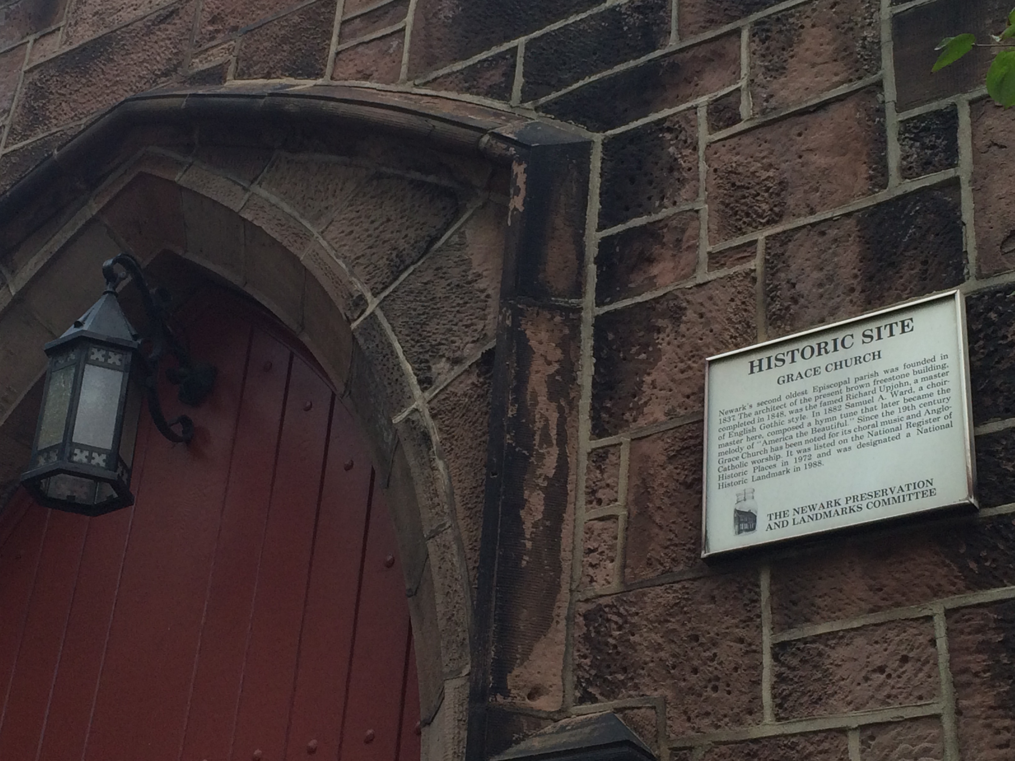 Plaque at Grace Church Newark, NJ, that describes its history and status as a National Historic Landmark.